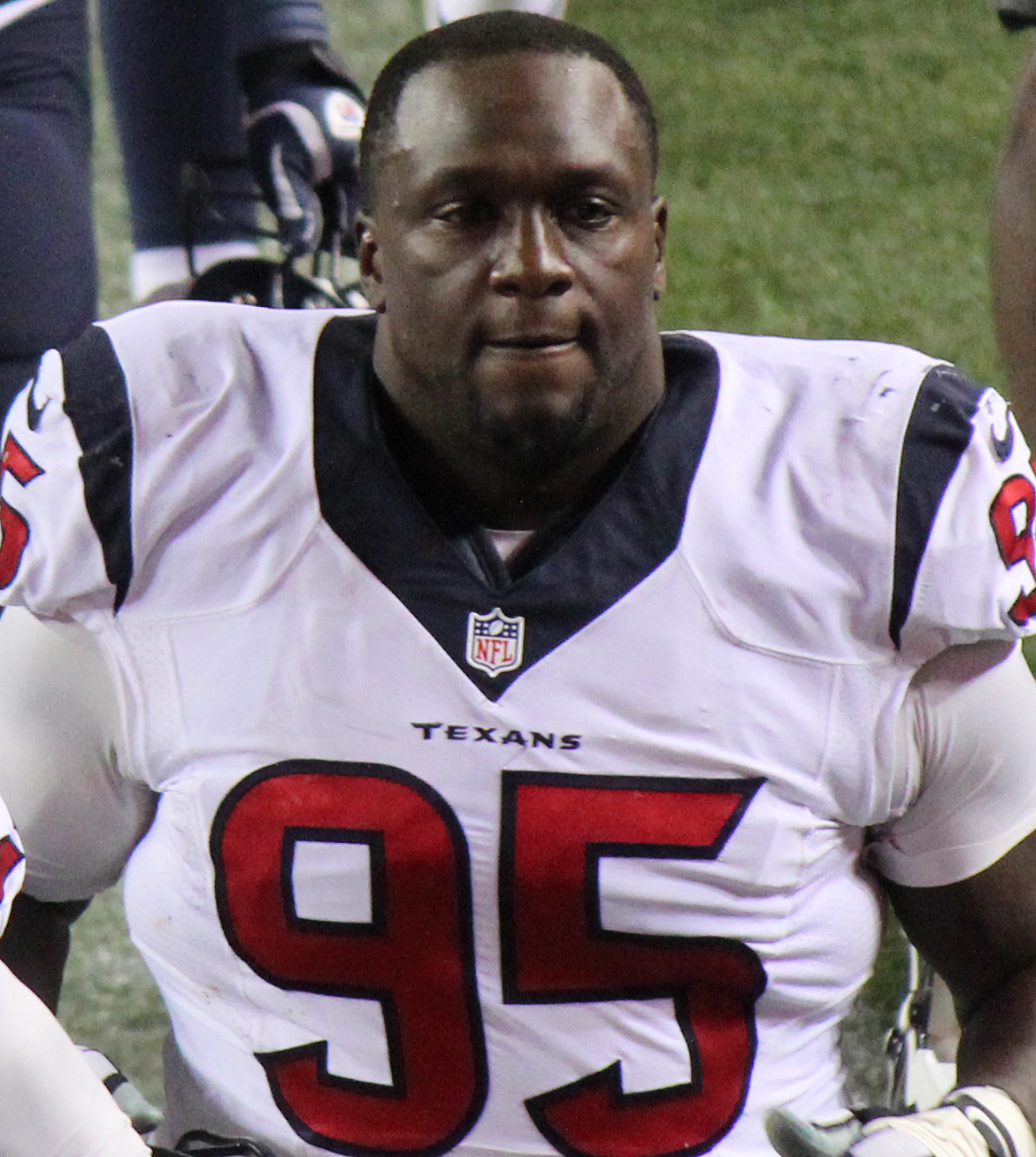 Jerrell Powe, a player on the National Football League.